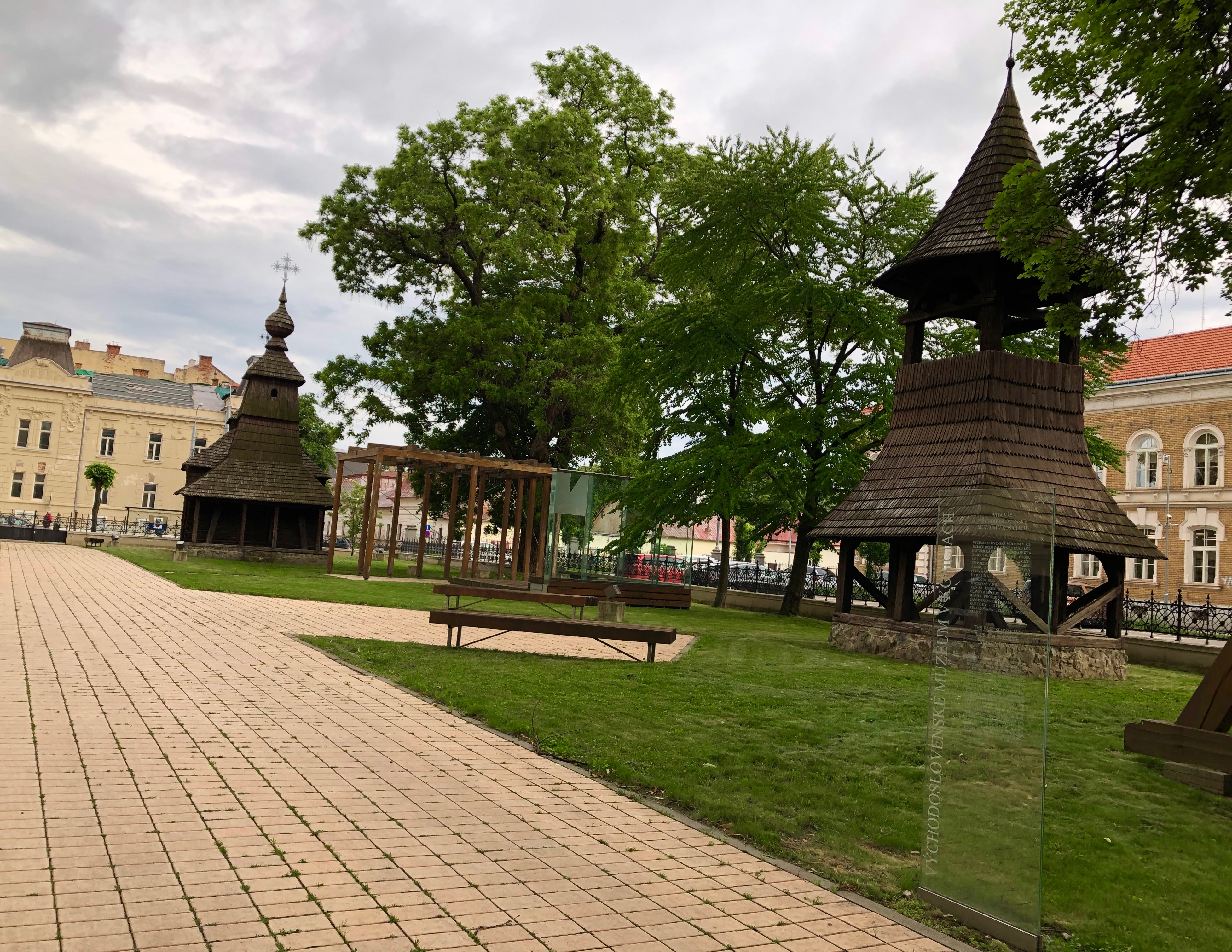 Area of East Slovak Museum in Košice, Slovakia